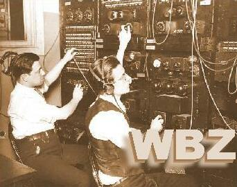 One of the first commercial radio stations, WBZA, originally broadcast from Springfield, Massachusetts in 1921.